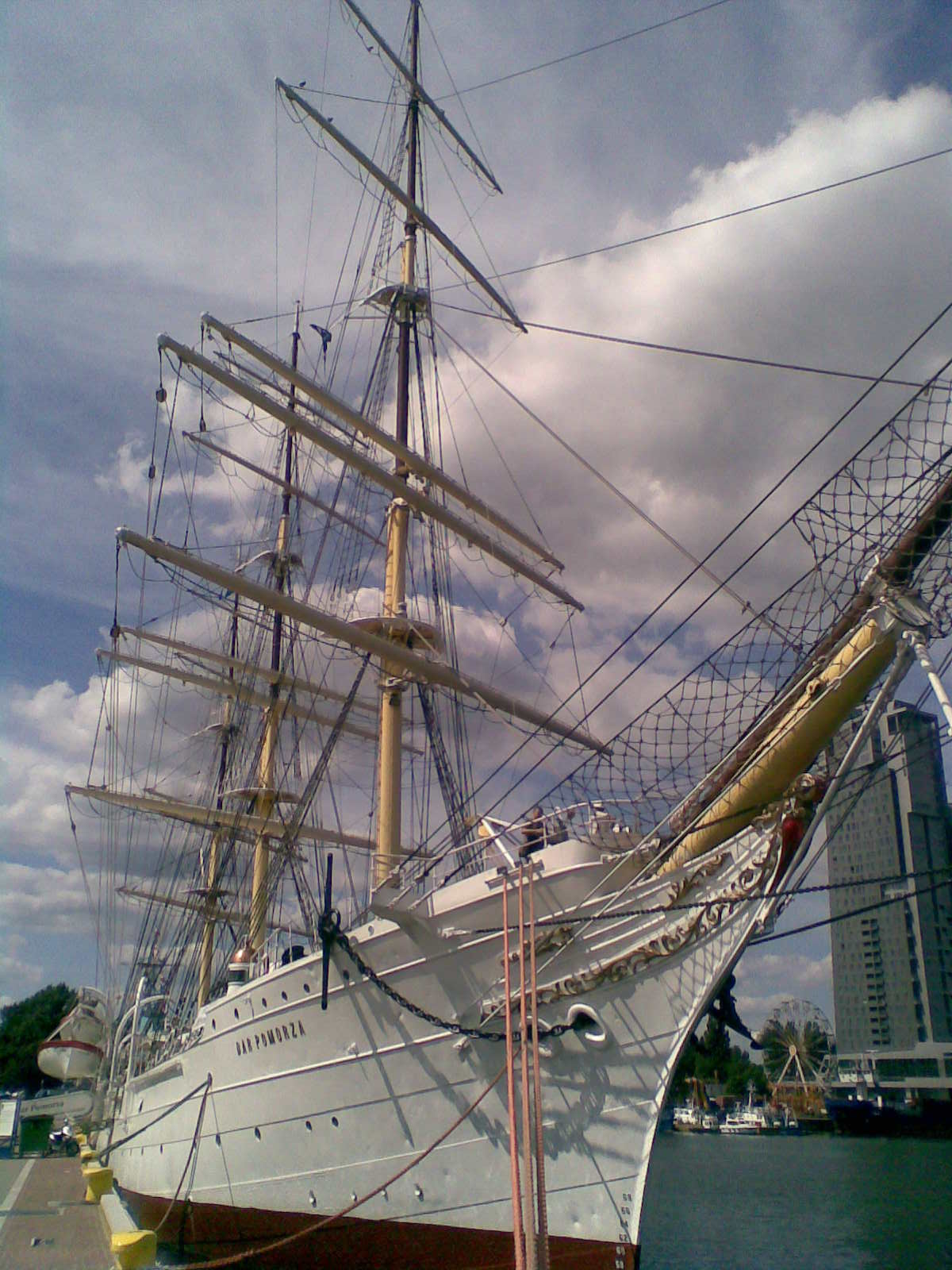 Dar Pomorza in Gdynia (Poland)